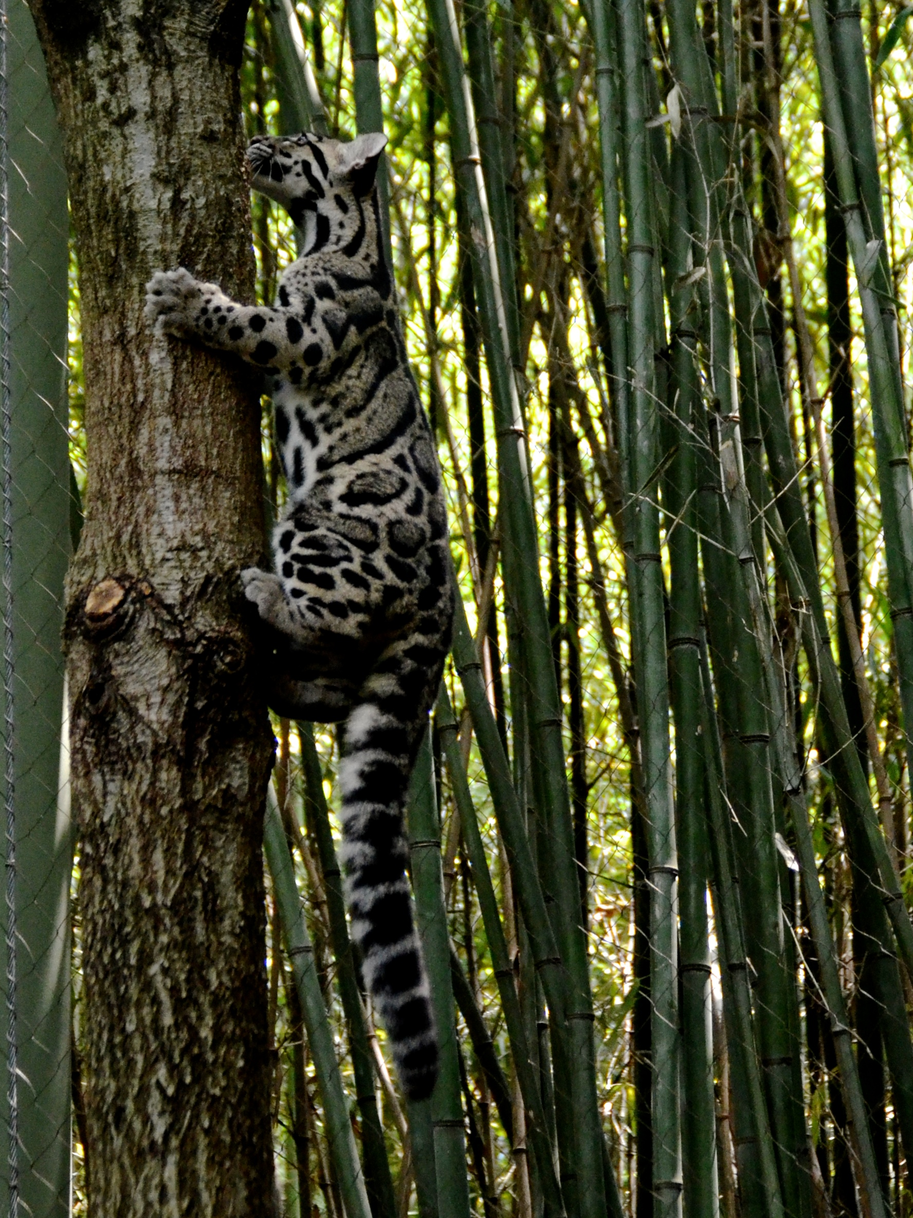 Clouded Leopard climbing a Tree in Nashville Zoo.